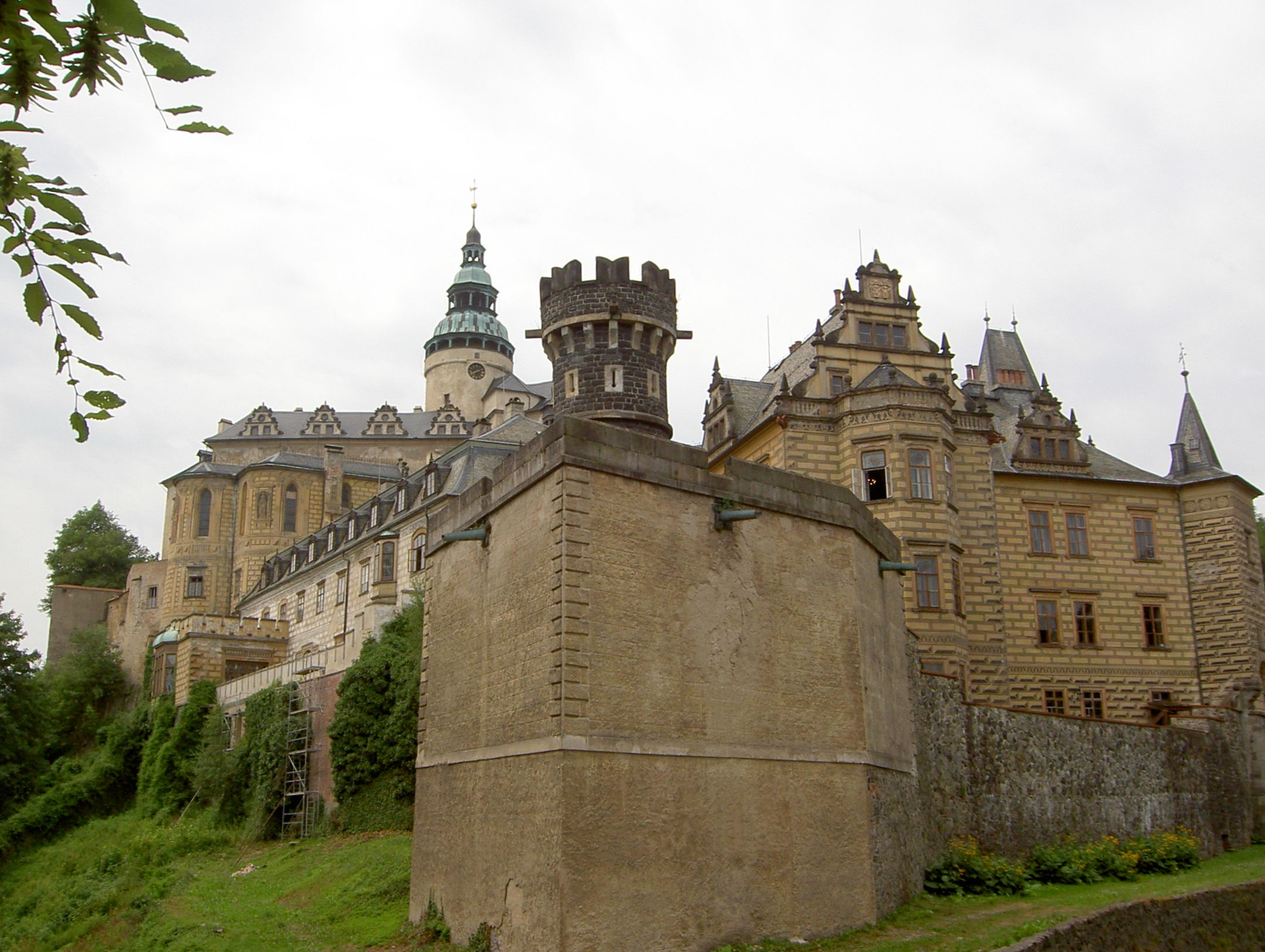 Frýdlant, Czech Republic, Castle